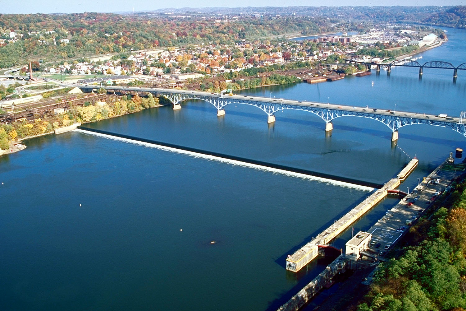 Lock and Dam Number 2 on the Allegheny River at O'Hara Township, Allegheny County, Pennsylvania, USA (part of the Pittsburgh metropolitian area). The lock and dam were built by the U.S. Army Corps of Engineers as a part of an extensive system of locks and dams to improve navigation along the Allegheny River. The Highland Park bridge crosses the river just above the dam.